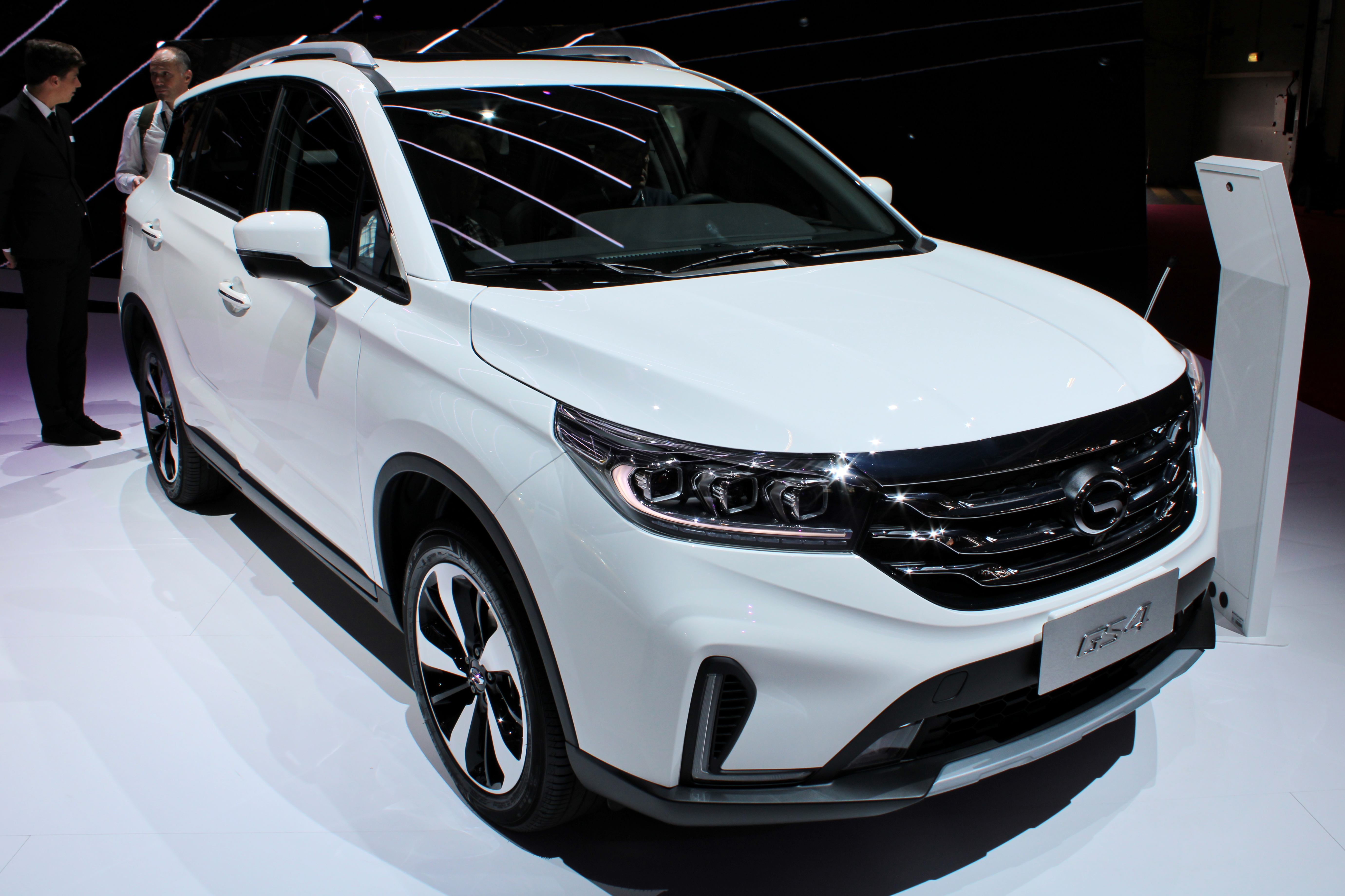 GAC Motor GS4 at Paris Motor Show 2018